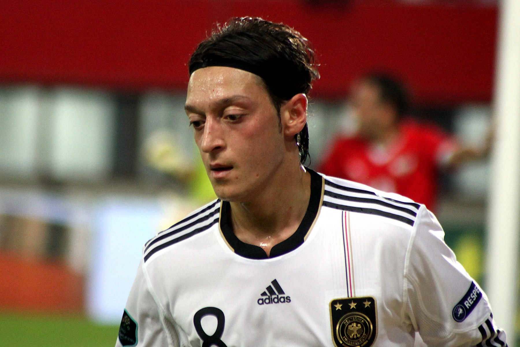 Mesut Özil (Real Madrid), german national football team